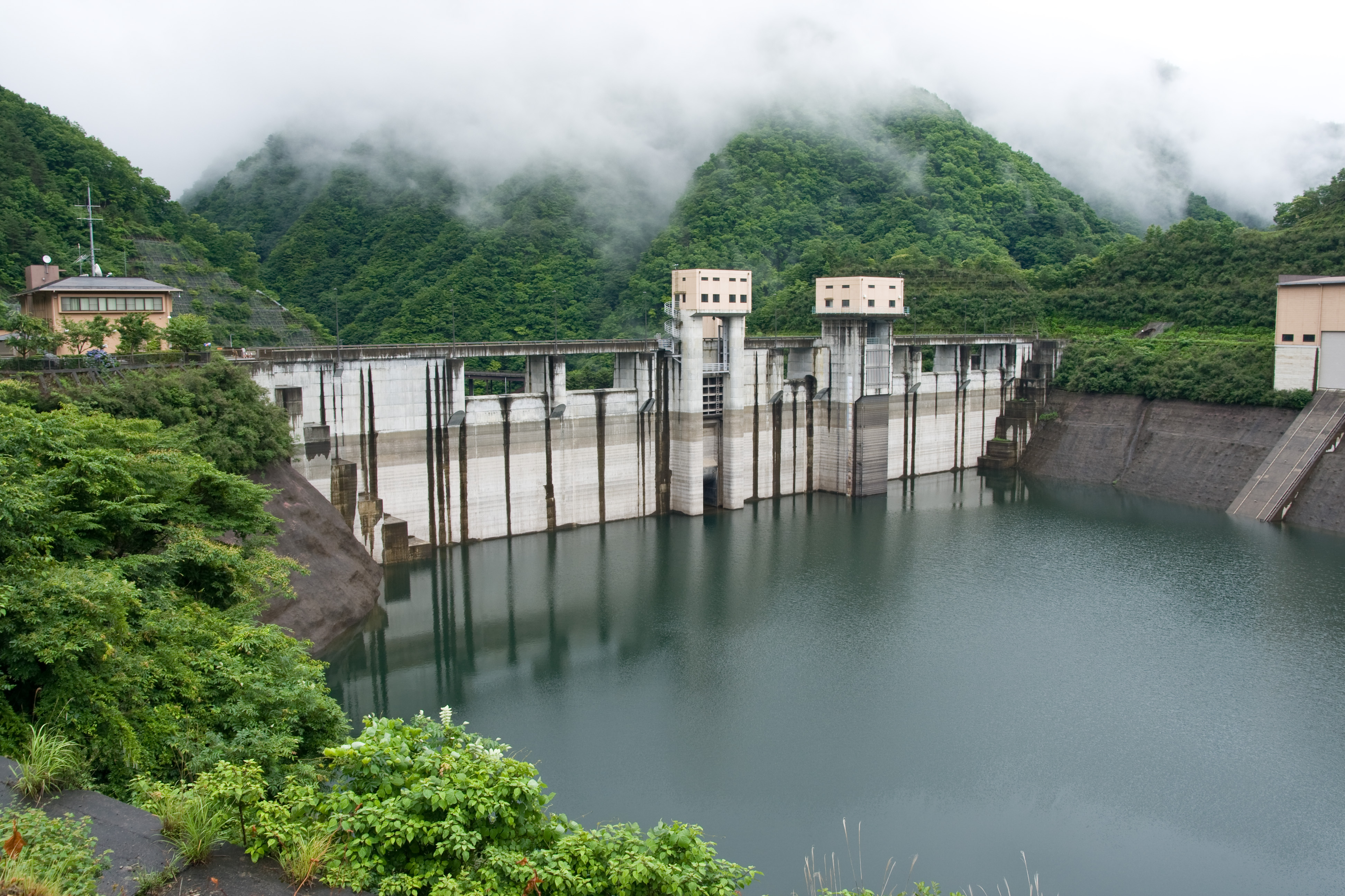 Fukashiro Dam, Otsuki City, Yamanashi Pref., Japan.